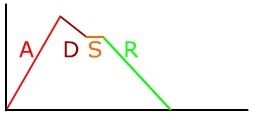 ADSR Graphics showing the four steps (Attack, Decay, Sustain and Release) with a very short sustain period and rapid decay and release, as in a percussion instrument.